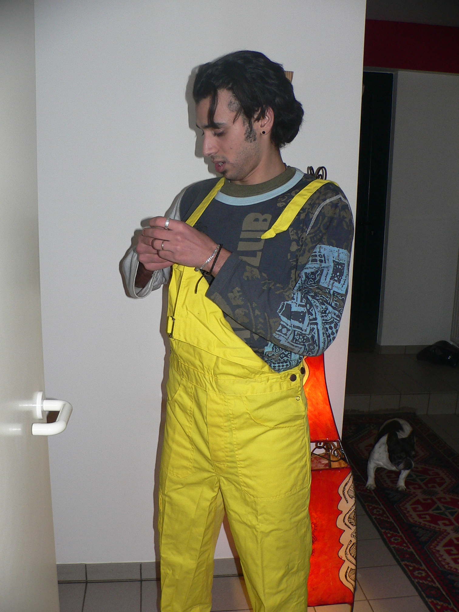 Overalls